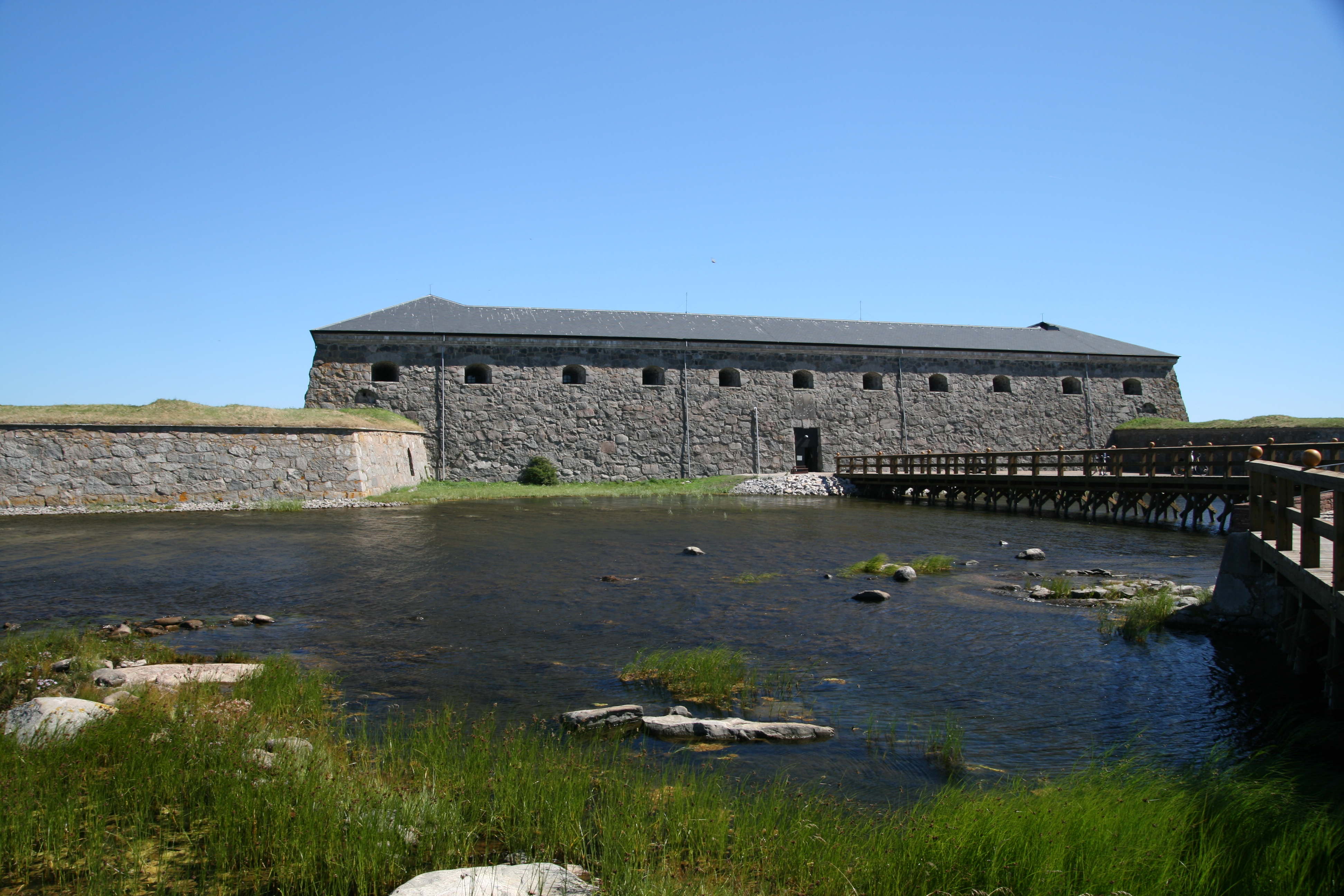 The naval fortress at Drottningskär on the island of Aspö in the archipelago of Karlskrona, Sweden.